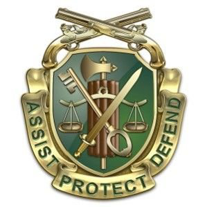 US Army Military Police Corps Regimental Insignia. Regimental Insignia: A gold color metal and enamel device 1 3/16 inches in height consisting of a shield blazoned as follows: Vert, a fasces palewise, axe Or and rods Proper (brown), thereover in fess a balance and in saltire overall a key with bow in sinister base and a sword with hilt in dexter base all of the second. The shield is enclosed at bottom and sides by a gold scroll of three folds inscribed ASSIST PROTECT DEFEND" in green letters and surmounted at the top by two crossed gold pistols. The regimental insignia was approved on 1986-07-03.